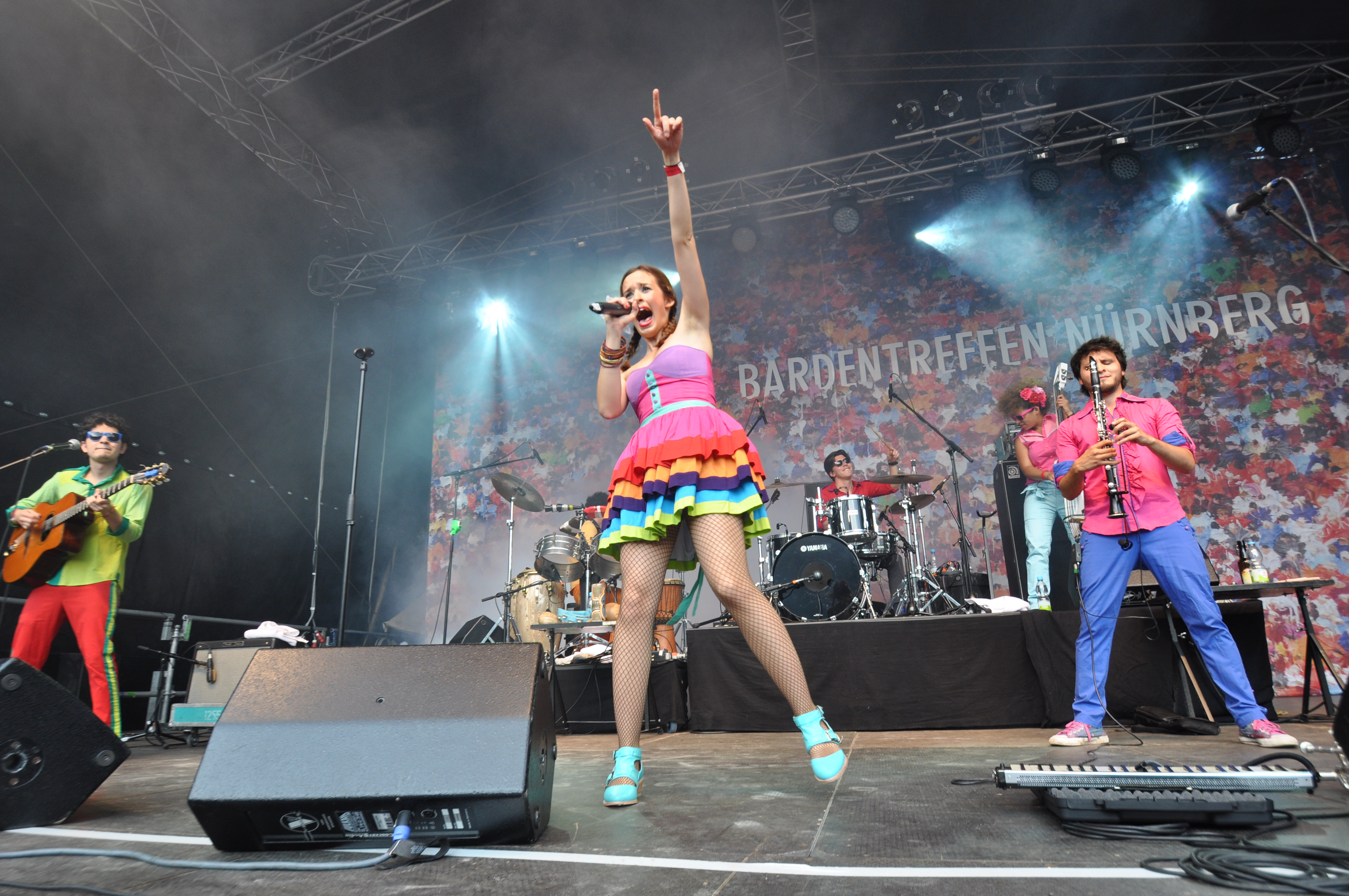 Monsieur Periné (Colombia), appearance at the 39th music festival "Bardentreffen" 2014 in Nuremberg, Germany, Schuett Isle stage